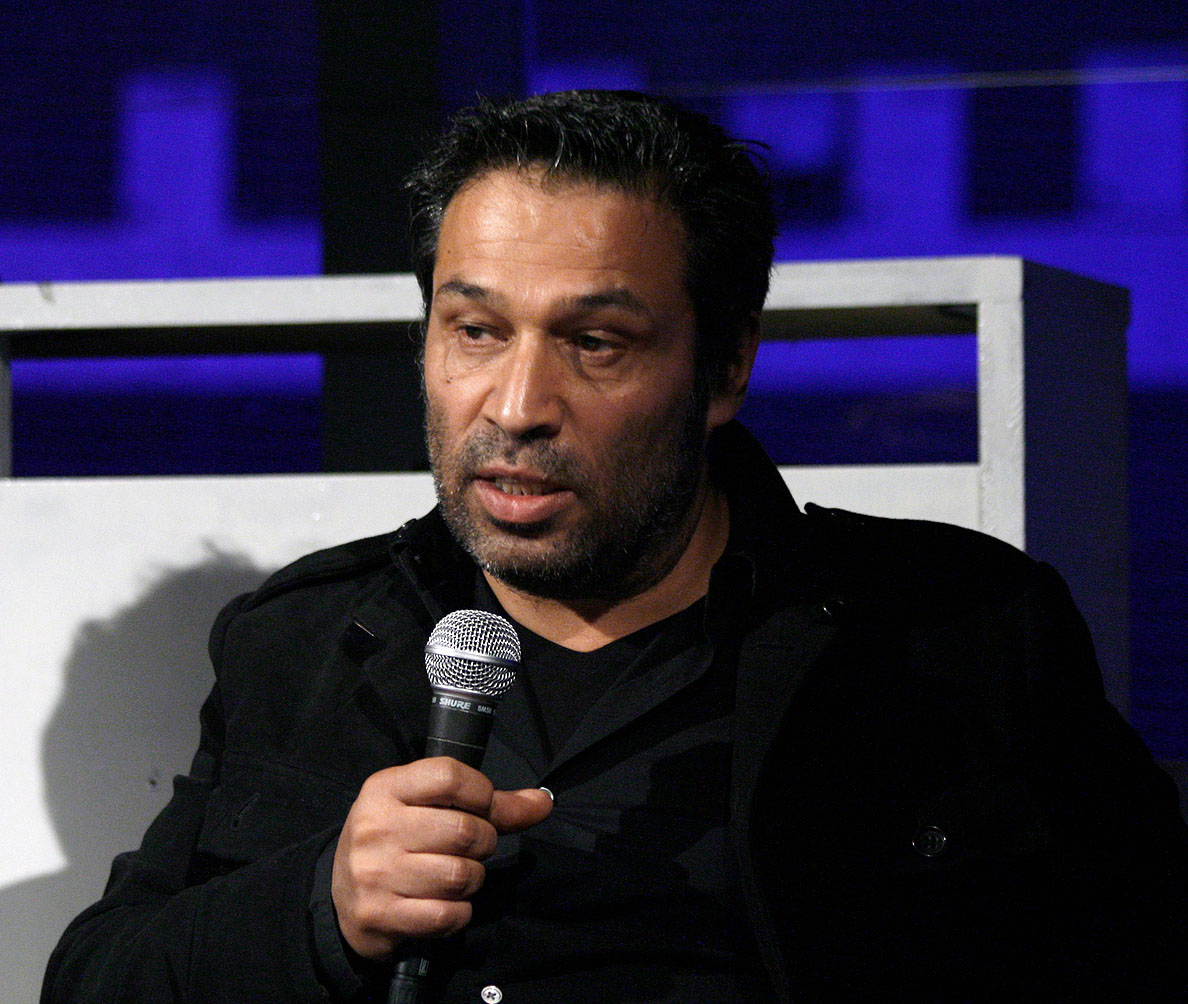 Shoja Azari at an open discussion together with Shirin Neshat about their film Zanan bedun-e mardan (Women without men) during the Vienna International Film Festival 2009.